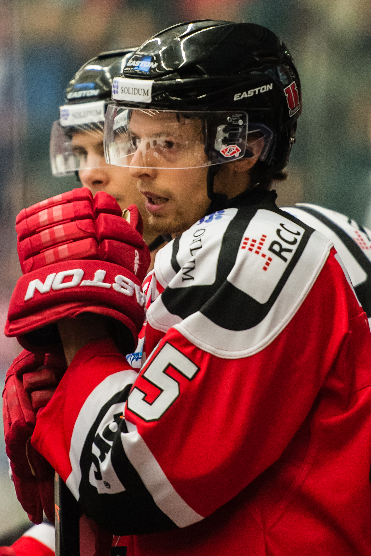 Kalle Olsson playing for Örebro HK in SHL (Sweden's highest league) against MODO Hockey in Behrn Arena 2013-10-05.